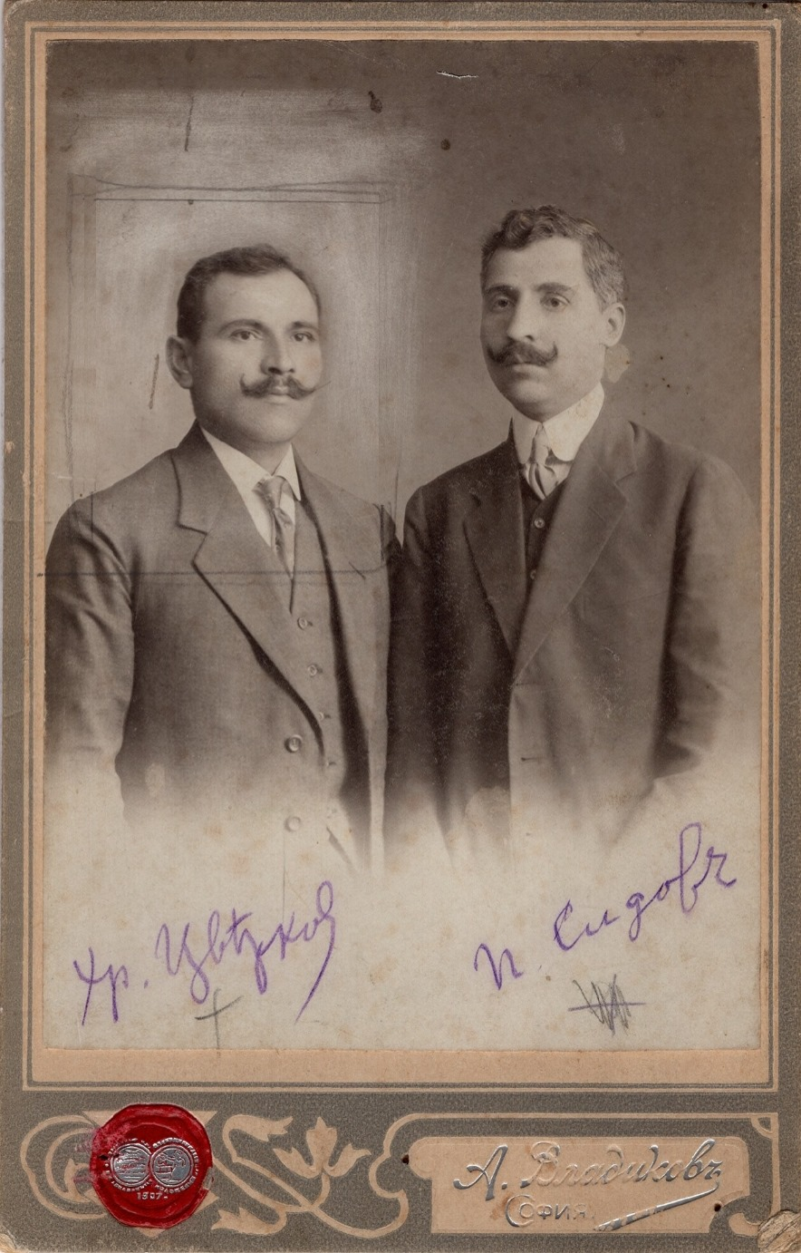 Hristo Tsvetkov and Pando Sidov